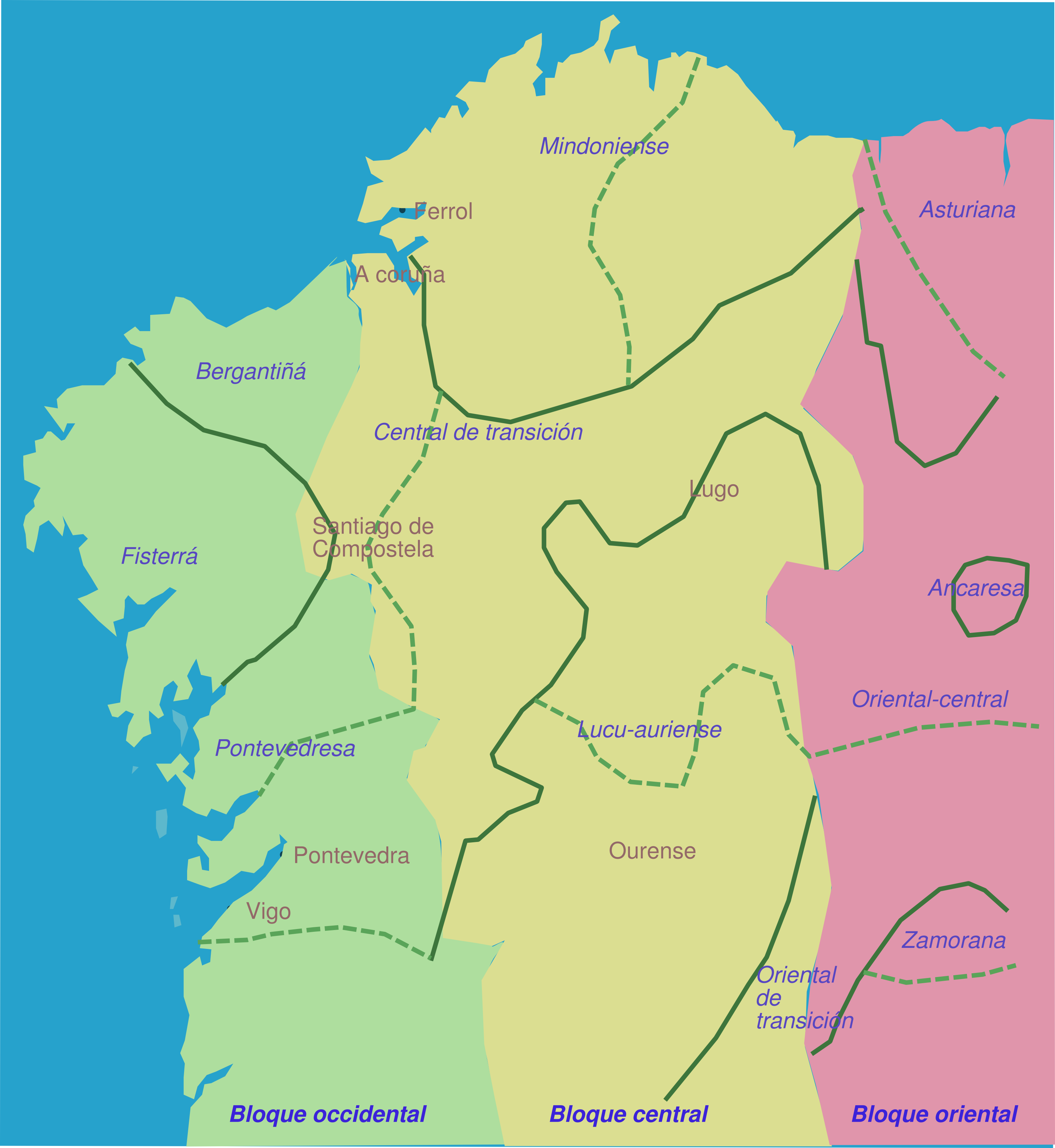 Linguistic map of the Galician language.